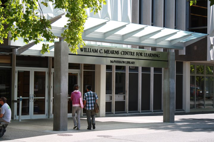 WIlliam C Mearns Center For Learning - McPherson Library - The University Of Victoria Français cadien: Universite de Victoria